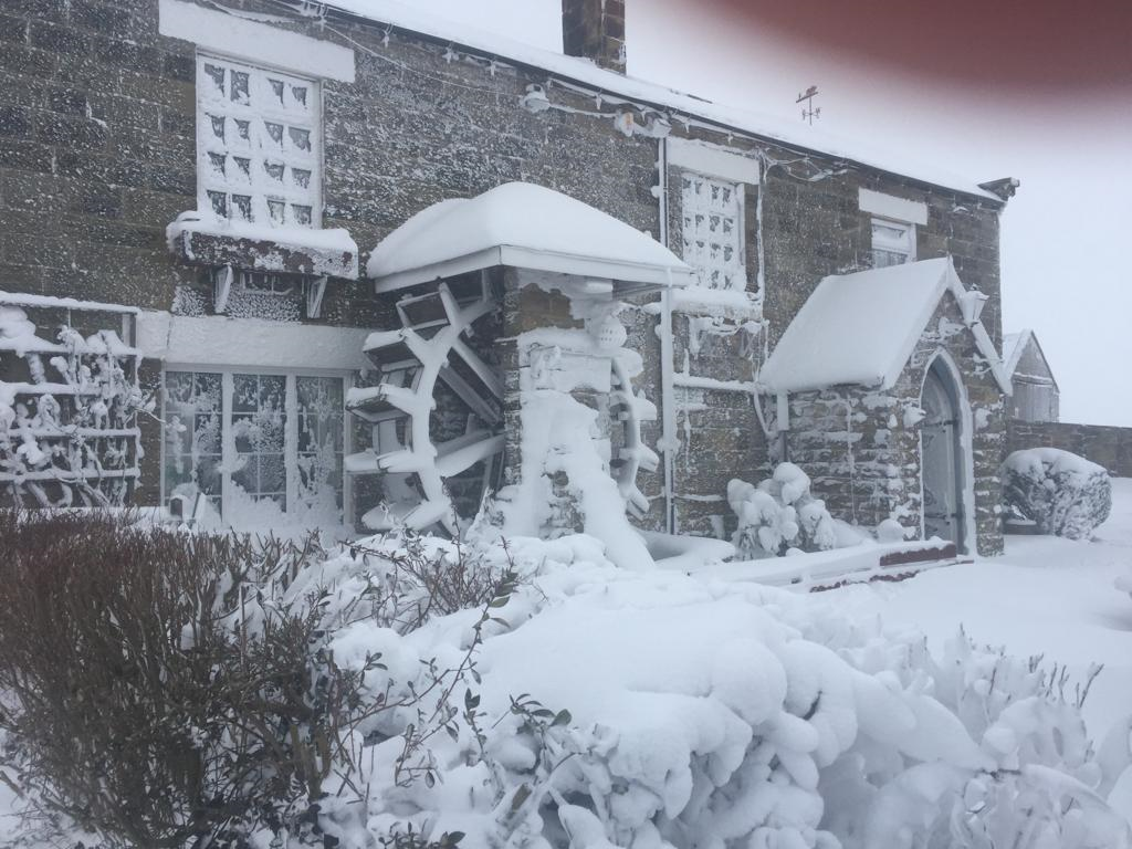 2017 Snowfall in Liverton at The Waterwheel Inn